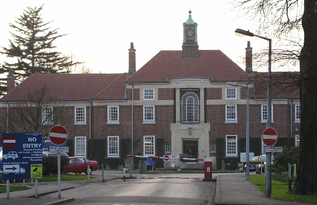 Bethlem Royal Hospital, near Shirley, taken 7 February 2005